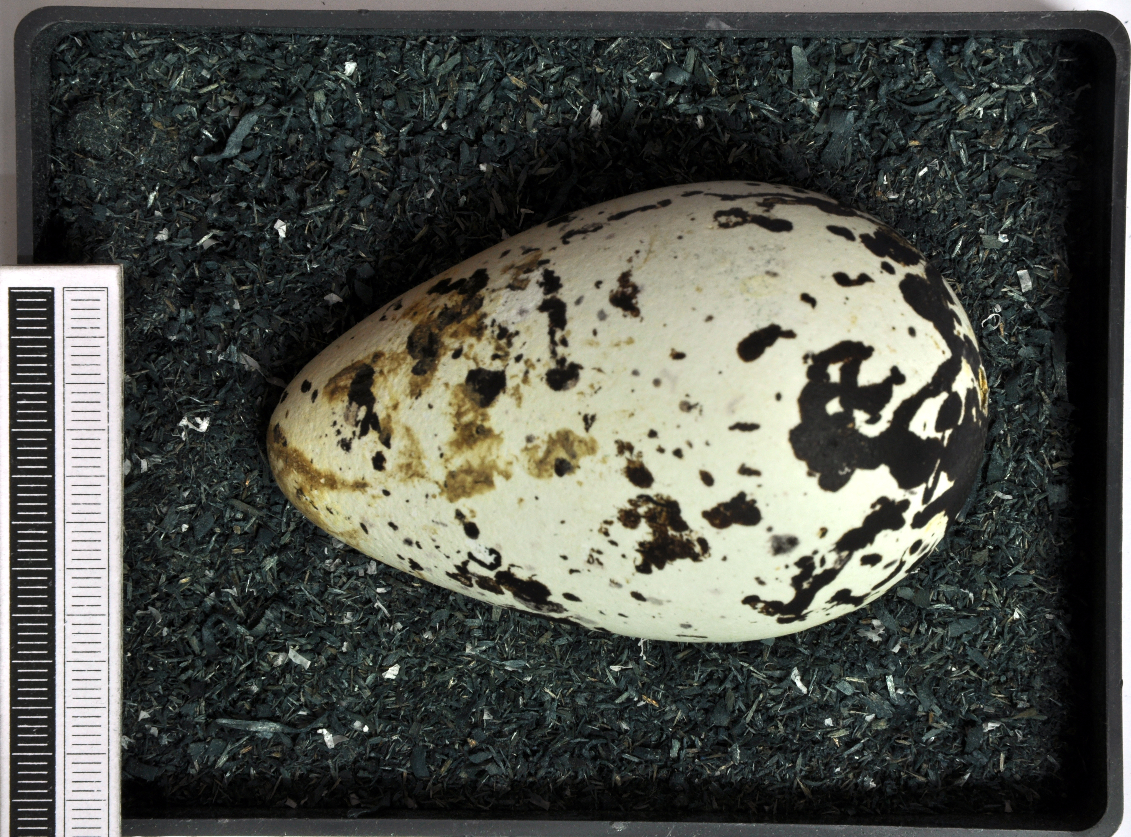 Common murre Uria aalge , egg, Coll. Museum Wiesbaden, leg. W. Abelmann